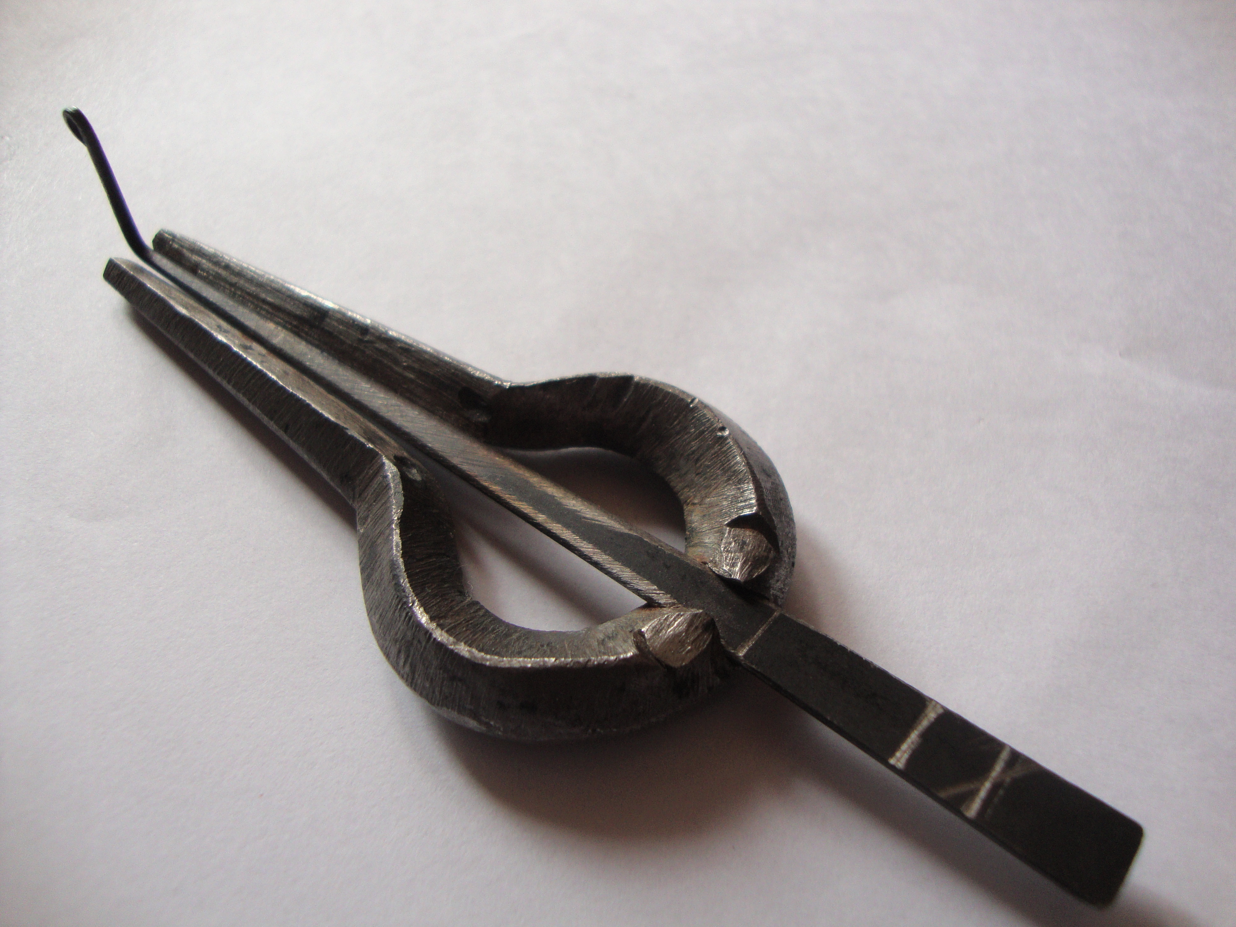 Morsing, also known as Jews Harp